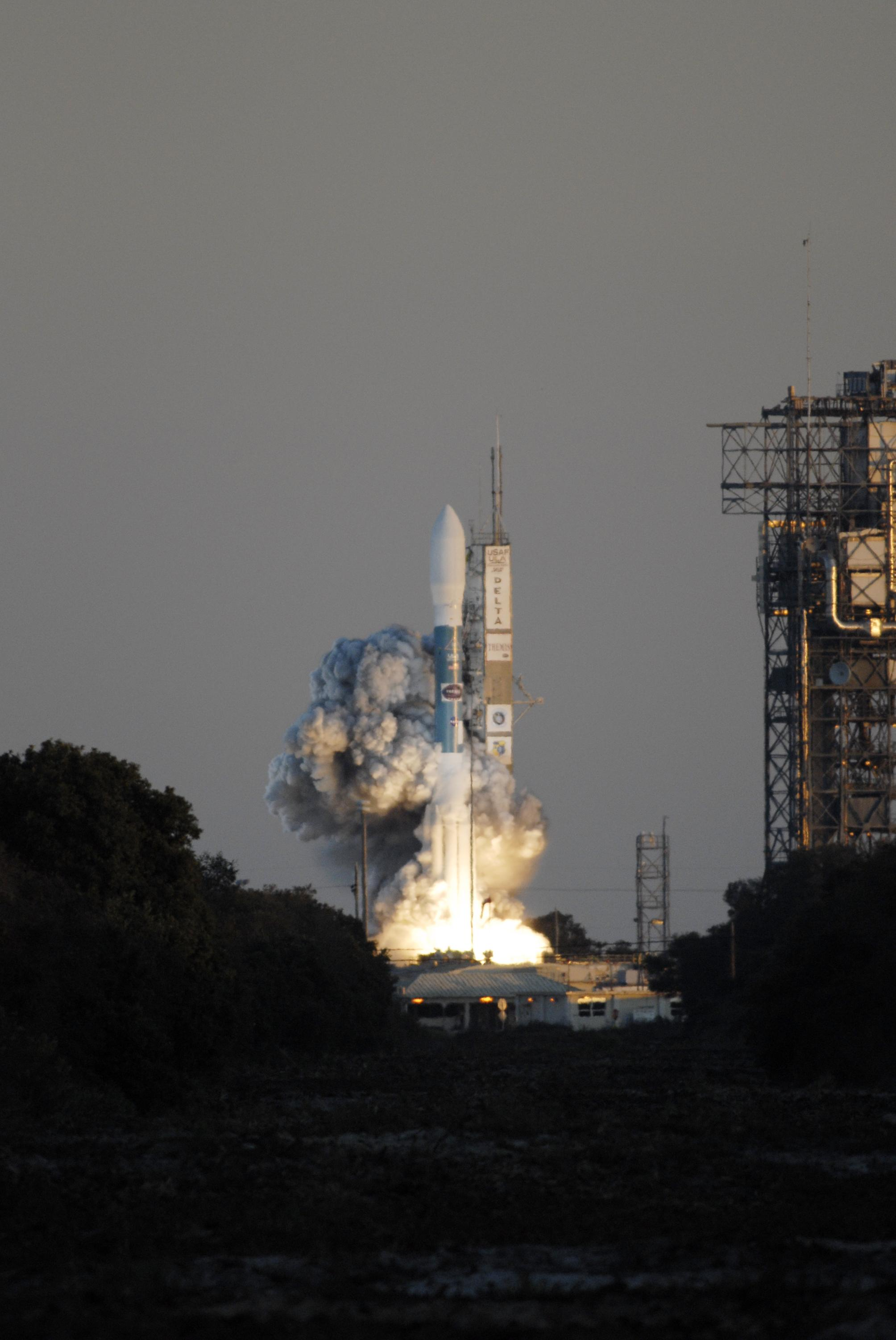 KENNEDY SPACE CENTER, FLA. -- Amid billows of smoke, the Delta II rocket with NASA's THEMIS spacecraft aboard lifts off Pad 17-B at Cape Canaveral Air Force Station at 6:01 p.m. EST. THEMIS, an acronym for Time History of Events and Macroscale Interactions during Substorms, consists of five identical probes that will track violent, colorful eruptions near the North Pole. This will be the largest number of scientific satellites NASA has ever launched into orbit aboard a single rocket. The THEMIS mission aims to unravel the mystery behind auroral substorms, an avalanche of magnetic energy powered by the solar wind that intensifies the northern and southern lights. The mission will investigate what causes auroras in the Earth's atmosphere to dramatically change from slowly shimmering waves of light to wildly shifting streaks of bright colour